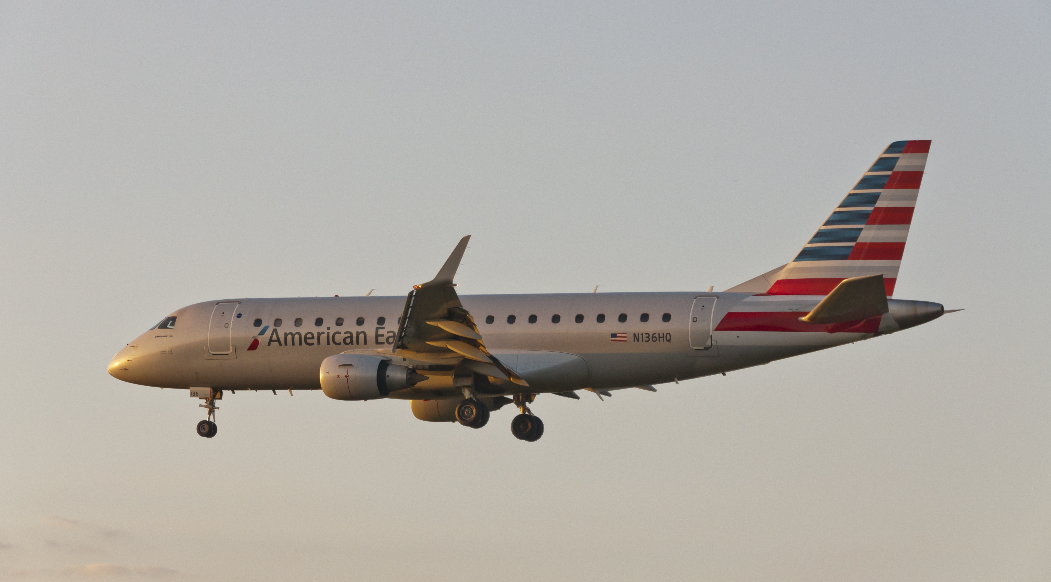 American Eagle Embraer 175LR; N134HQ on approach to KCMH